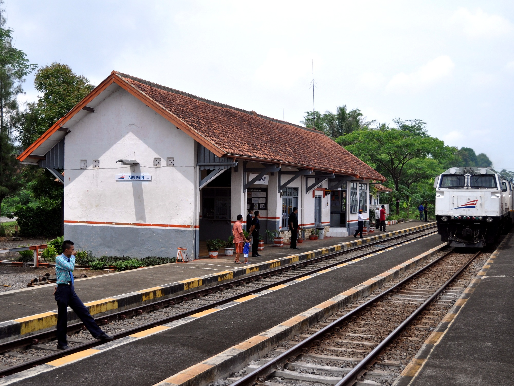 Awipari train station near Tasikmalaya, West Java, Indonesia. With Lodaya passenger train destination Surakarta passing by.